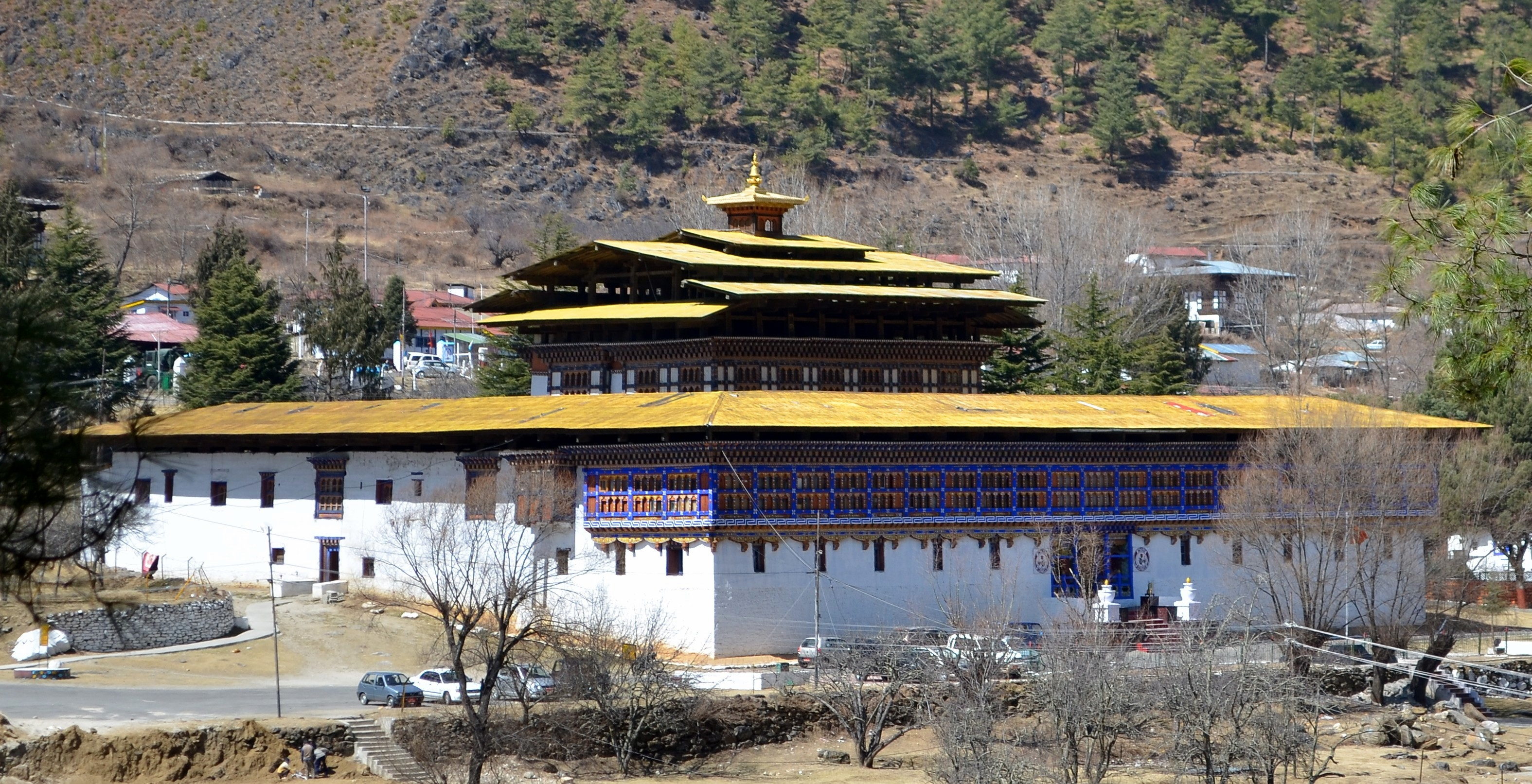 Wangchuk Lo Dzong, Haa, Bhutan (also referred to as Haa Dzong). Built by Kazi Ugyen Dorje, the Drungpa of Haa, in 1913. The central building contains a shrine looked after by caretaker monks, the rest of the complex currently houses army offices.